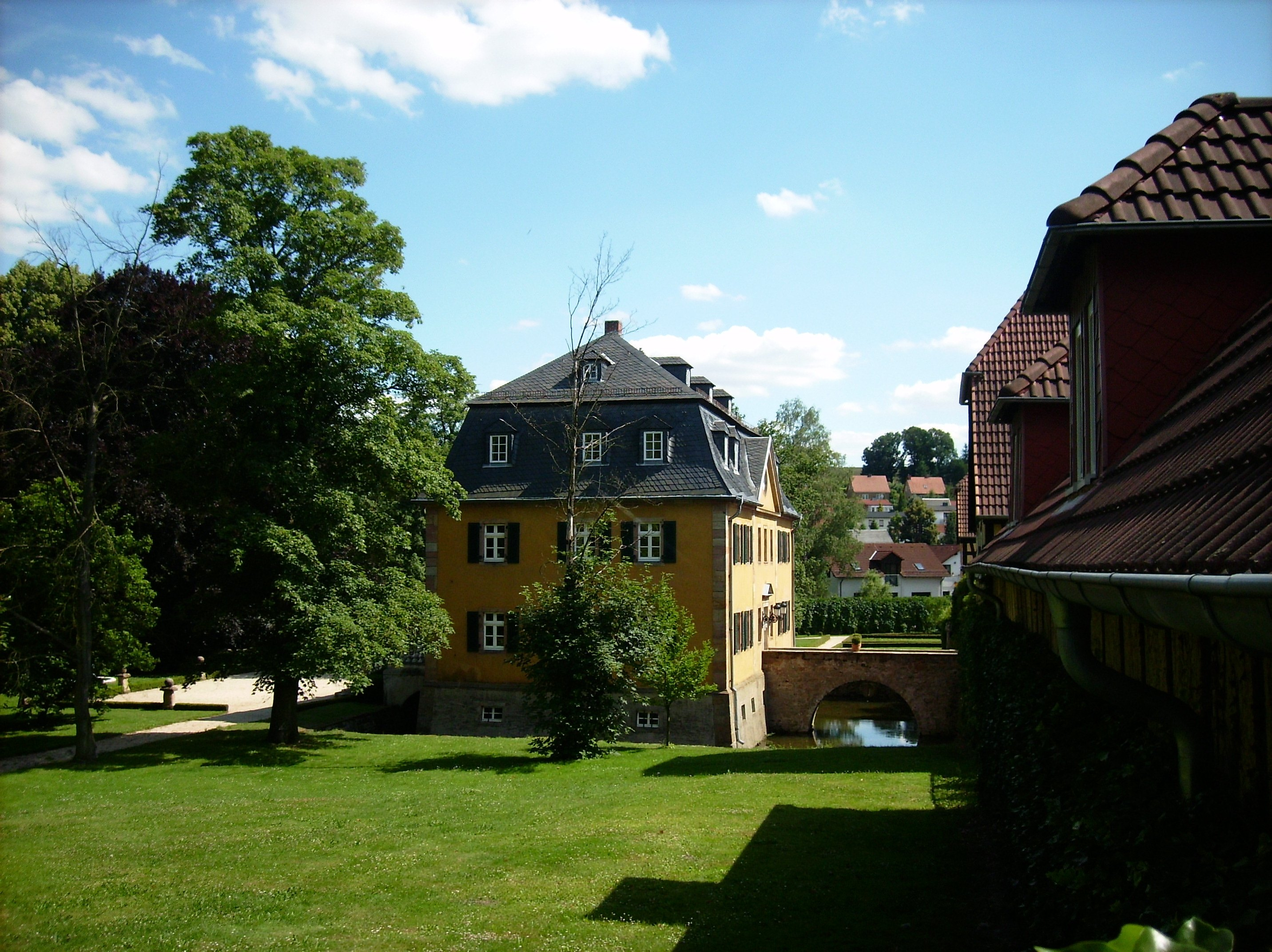 Manor house in Hartmannsdorf (district of Saale-Holzland-Kreis, Thuringia)